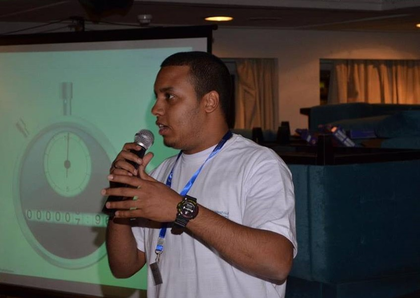 Me at Startup Weekend Assiut